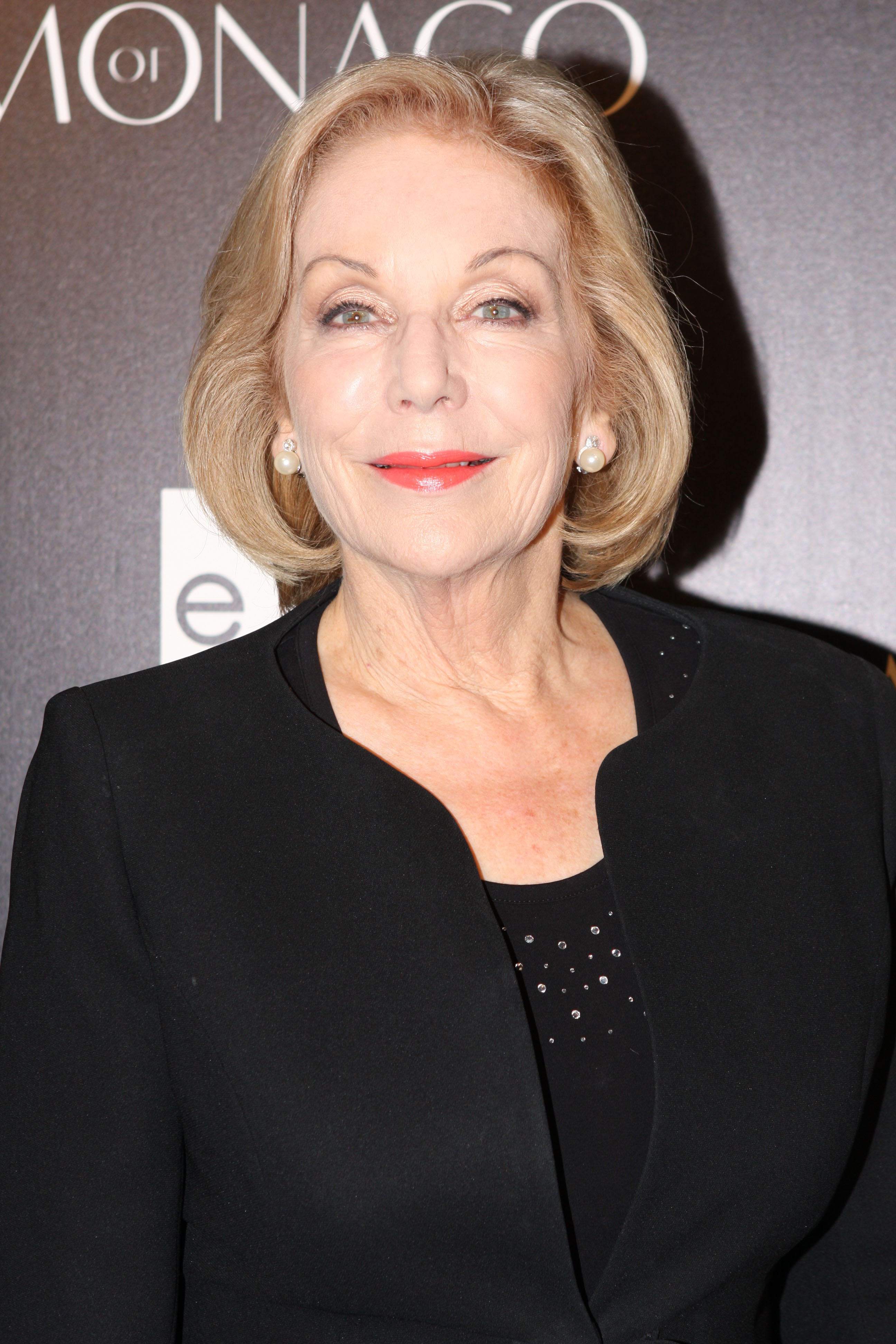 Buttrose at the Grace of Monaco Premiere, Sydney